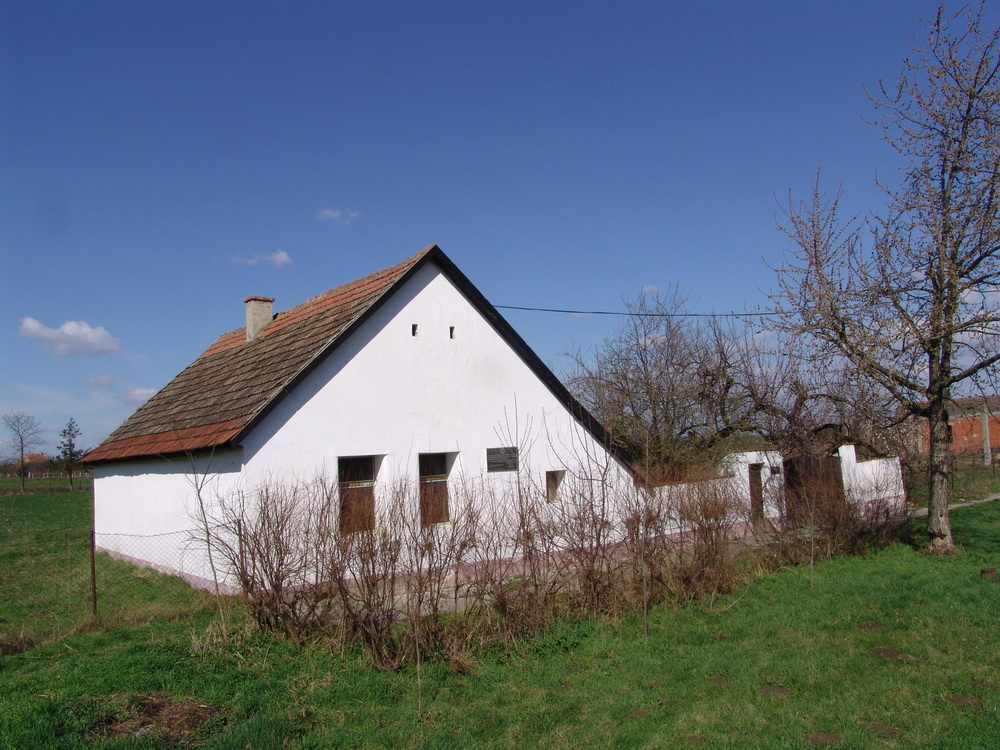 The birth house of national hero Svetozar Marković Toza in Zrenjanin